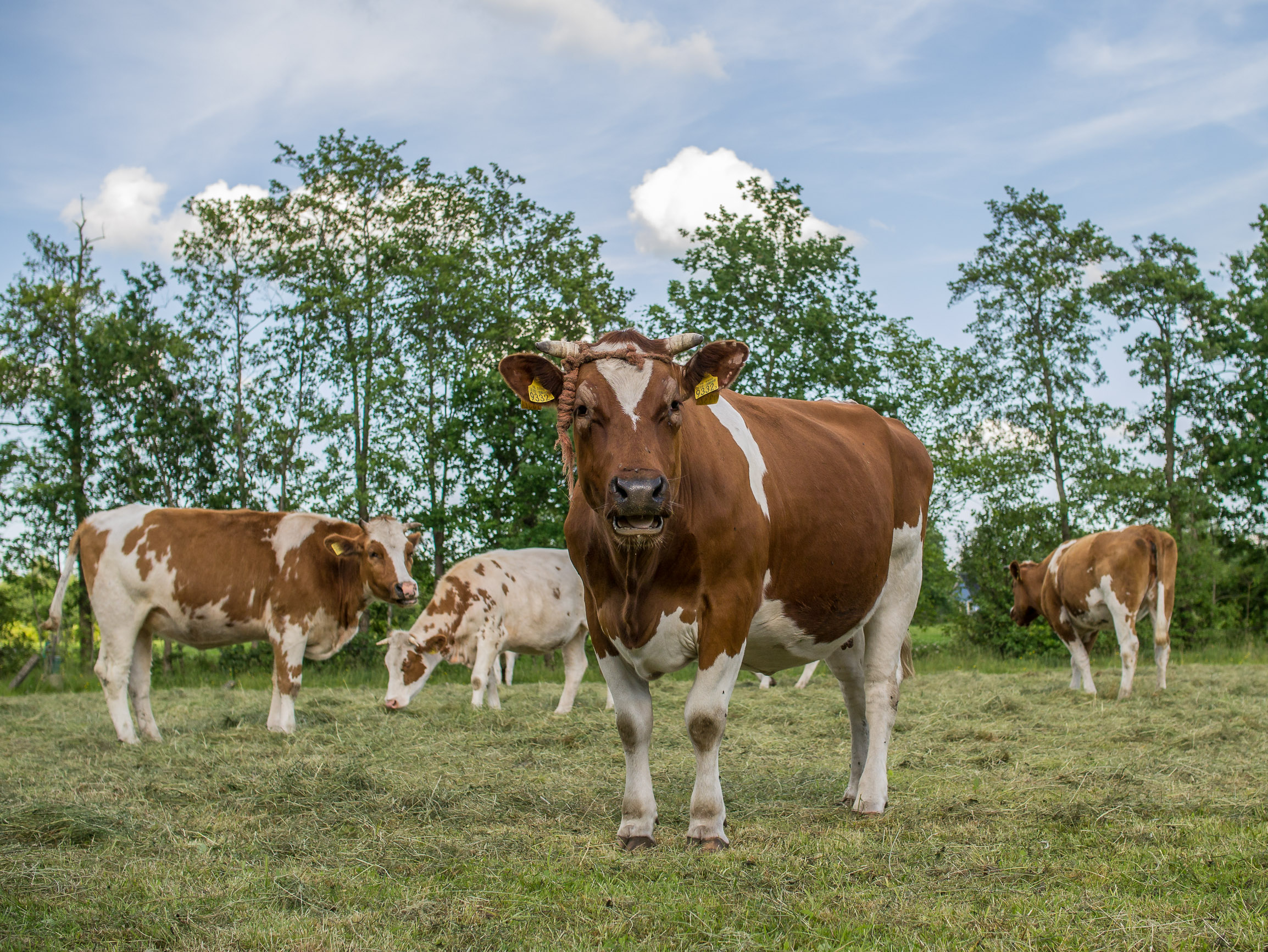 Frisian redwhite cows